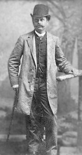 retouched image (from a baseball card) of James J. Mutrie (1851 – 1938)